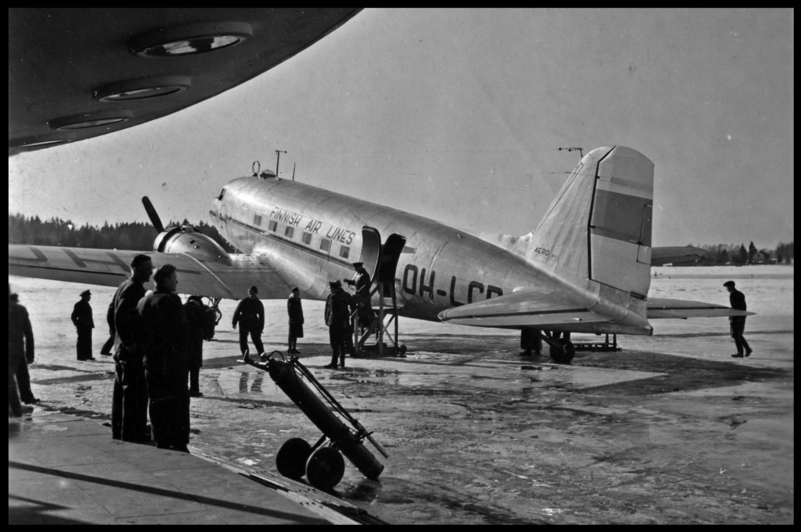 Aero O/Y Douglas DC-3 aircraft (OH-LCD) at Helsinki-Malmi Airport in March 1948